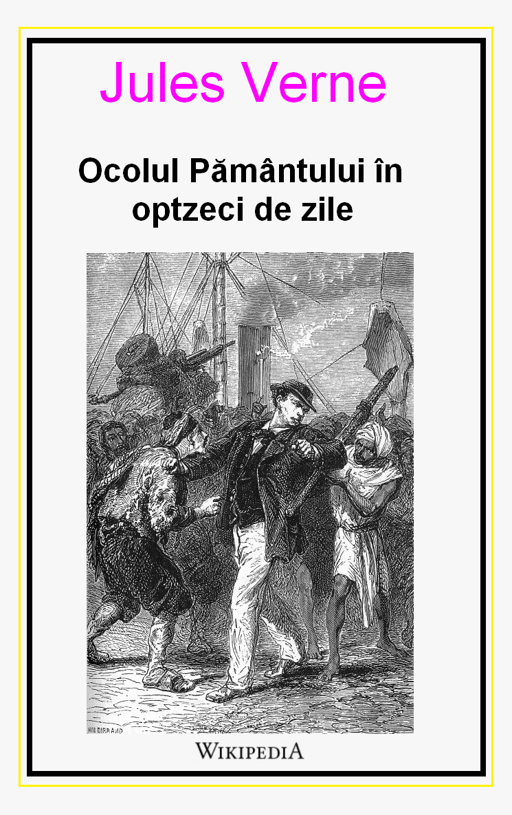 An ilustration from the novel "Around the World in Eighty Days" by Jules Verne painted by Alphonse de Neuville and/or Léon Benett.